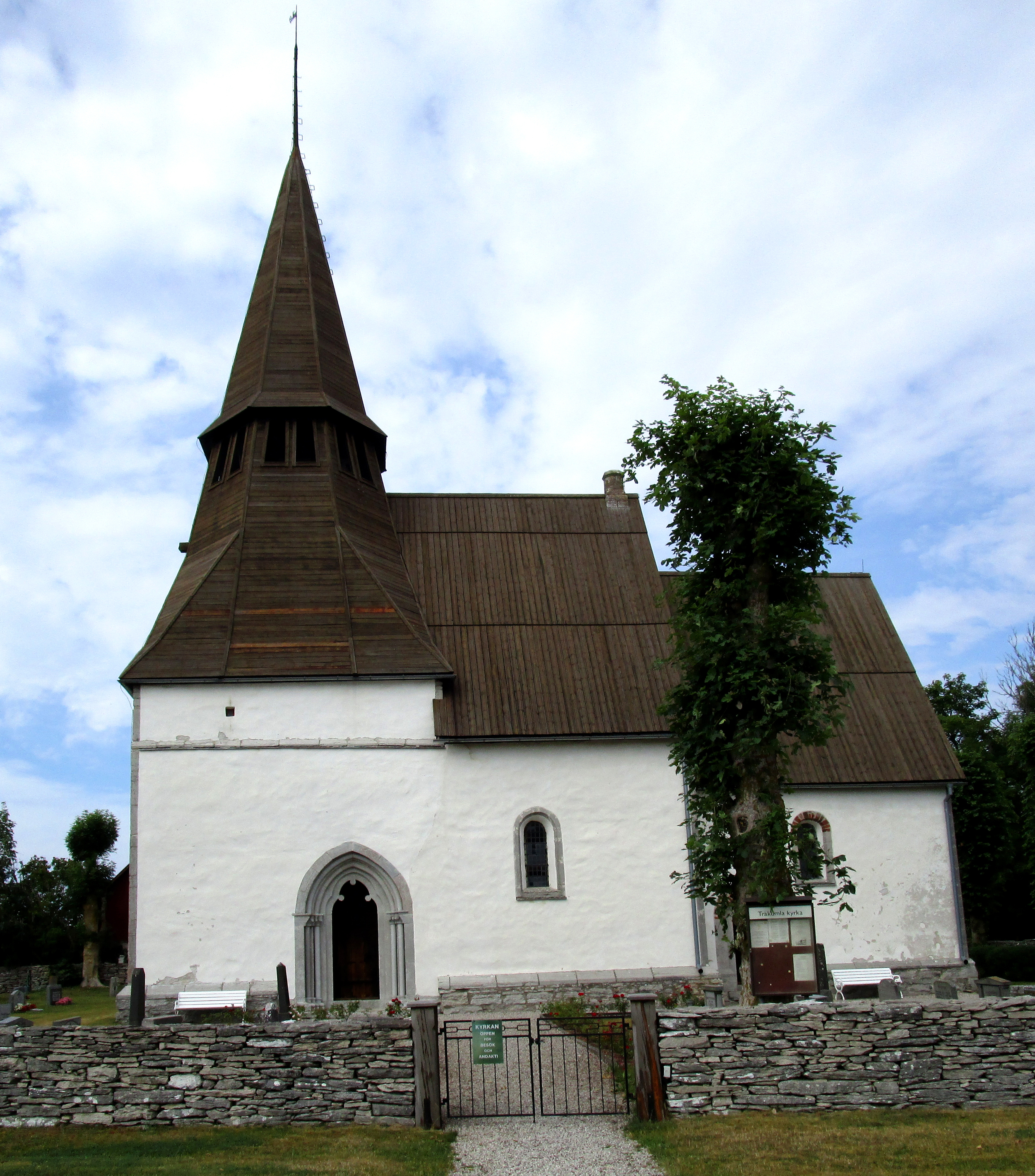 Träkumla Church Gotland Sweden